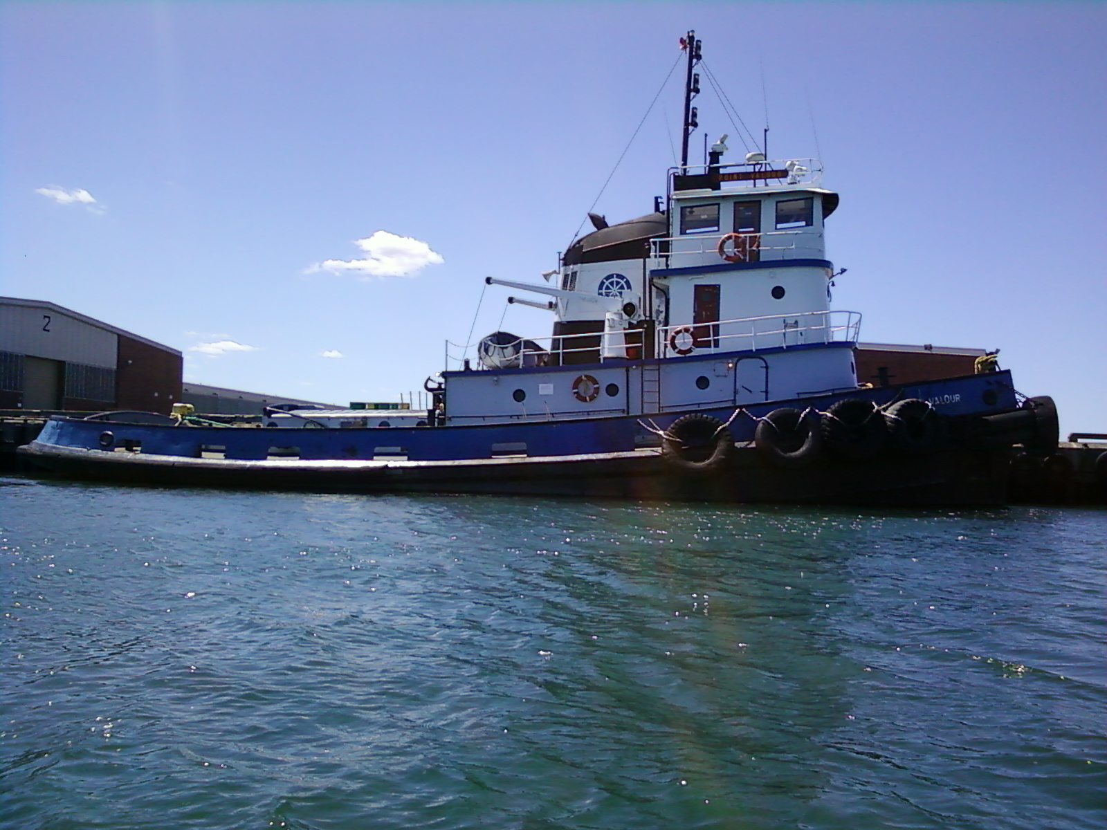 tug Point Valour waiting at the dock for work.